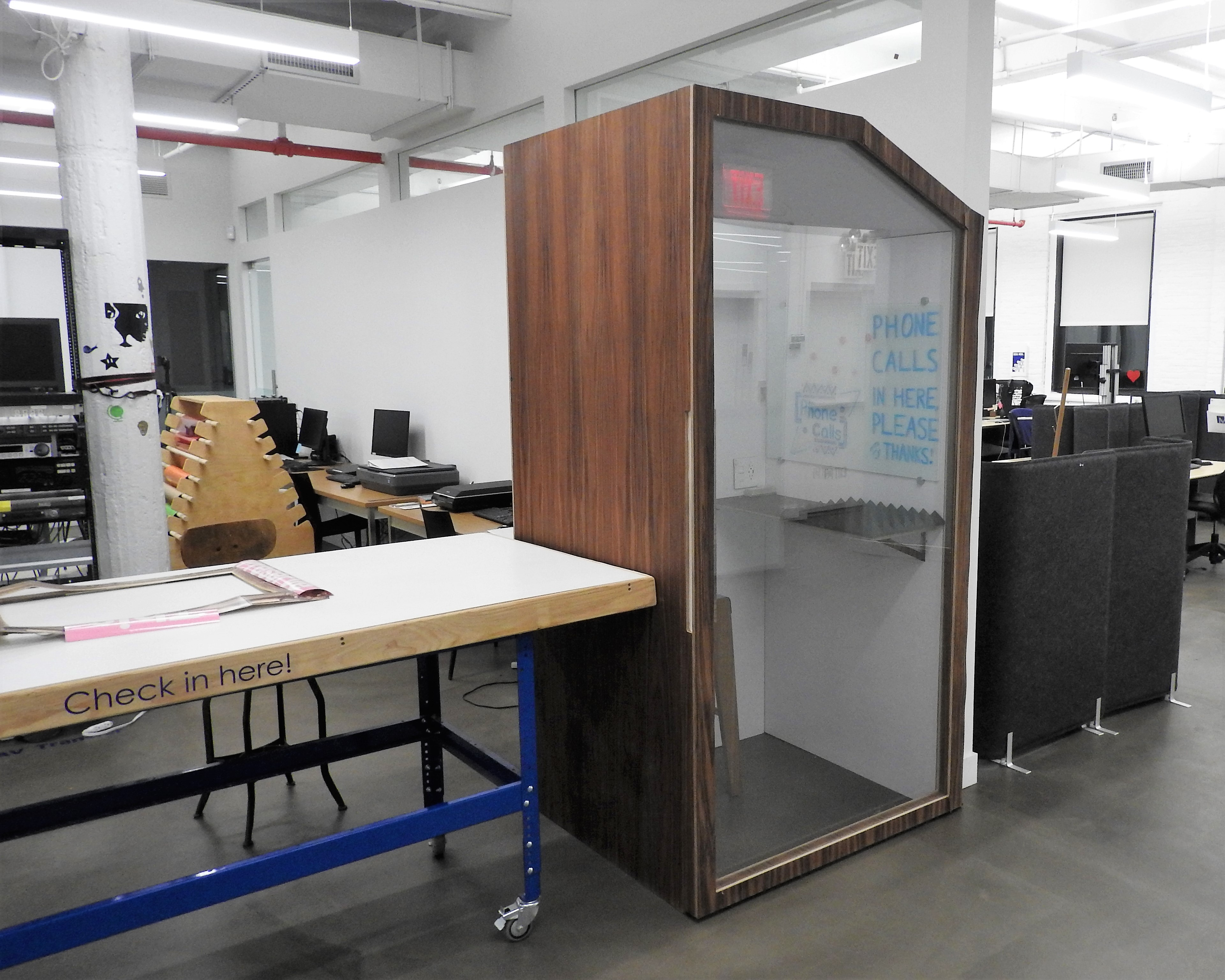 Looking northeast in Metro Library Council office at phone booth.